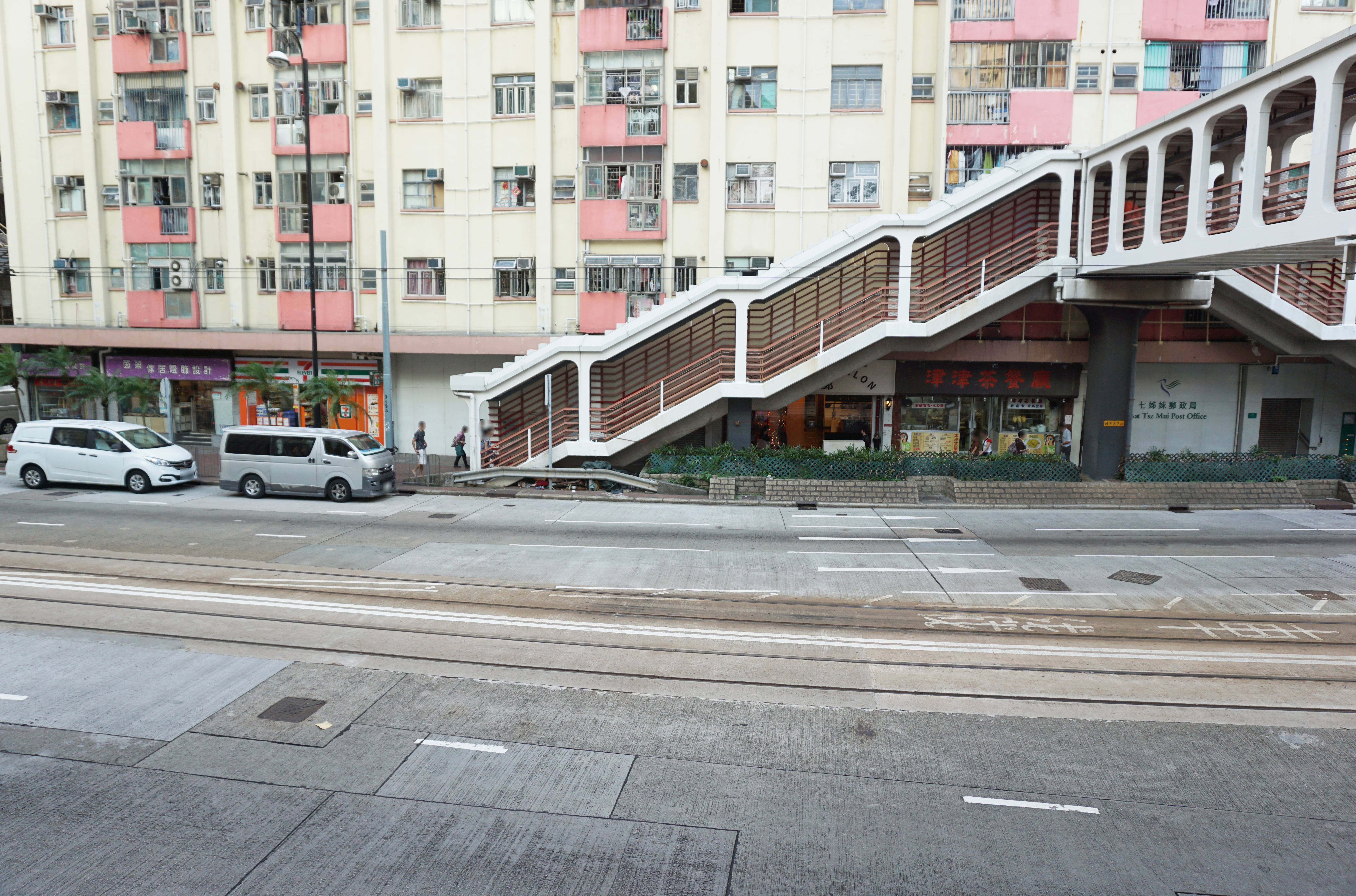 Model Housing Estate in Quarry Bay, Hong Kong.